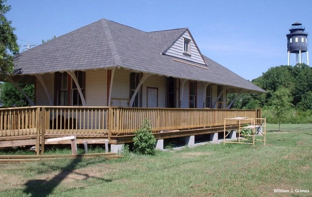 Correct typo in filename so the image links properly to Wikipedia. Original by William Grimes, released to public domain Nov. 2006.